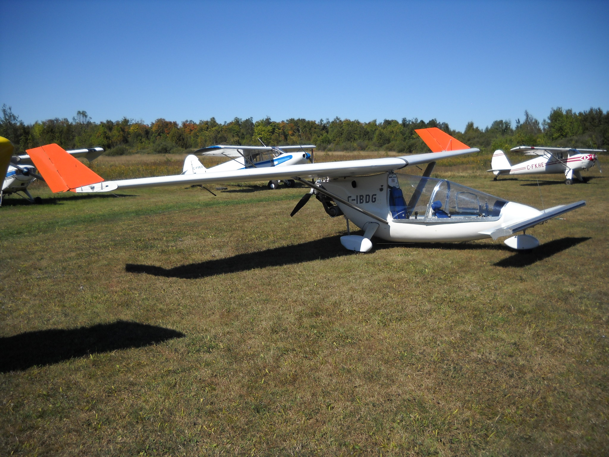 An American Aerolights Falcon XP at the Carleton Place Fly-in